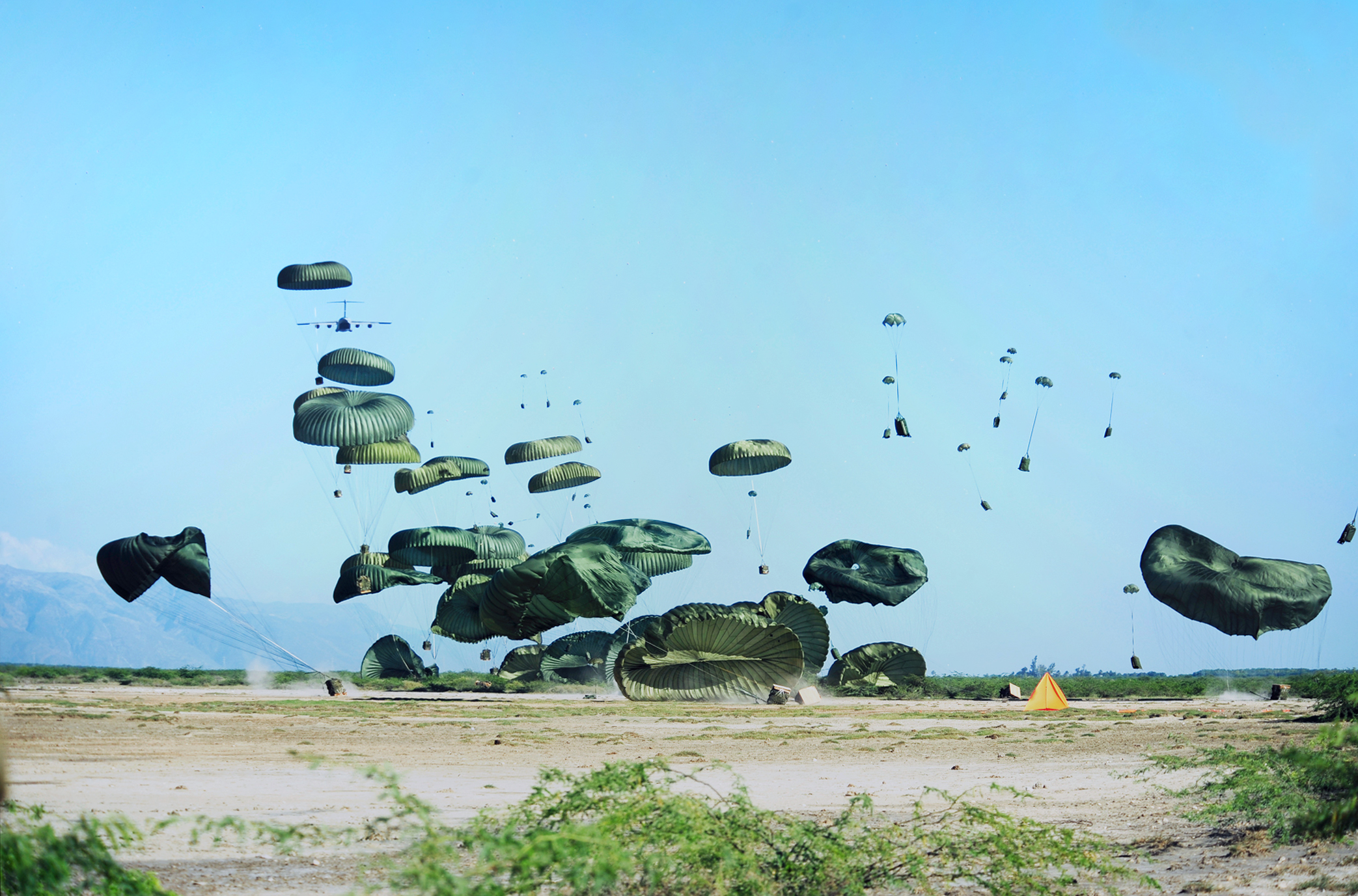 US C-17 emergency airdrop in Haiti, Jan 18.